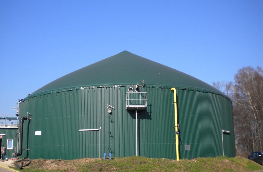 Picture abou BioFermenter